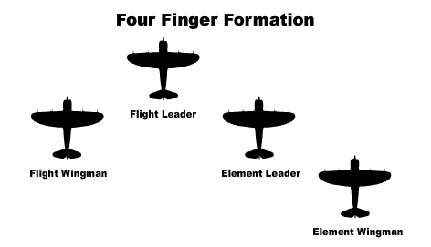 Top-down view of a Four Finger Formation used by fighter aircraft